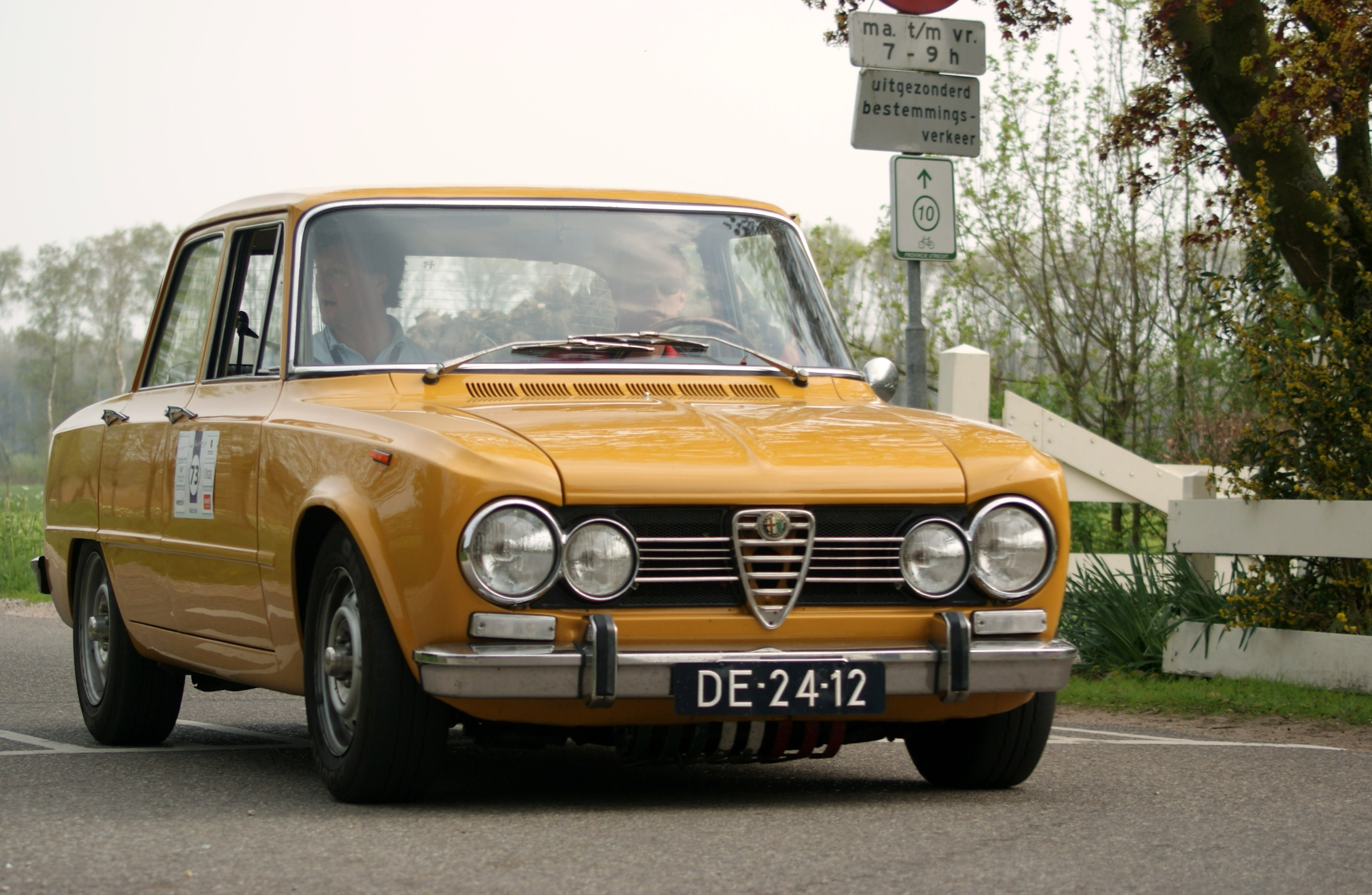 DE-24-12 Hoefslag Rally 2011